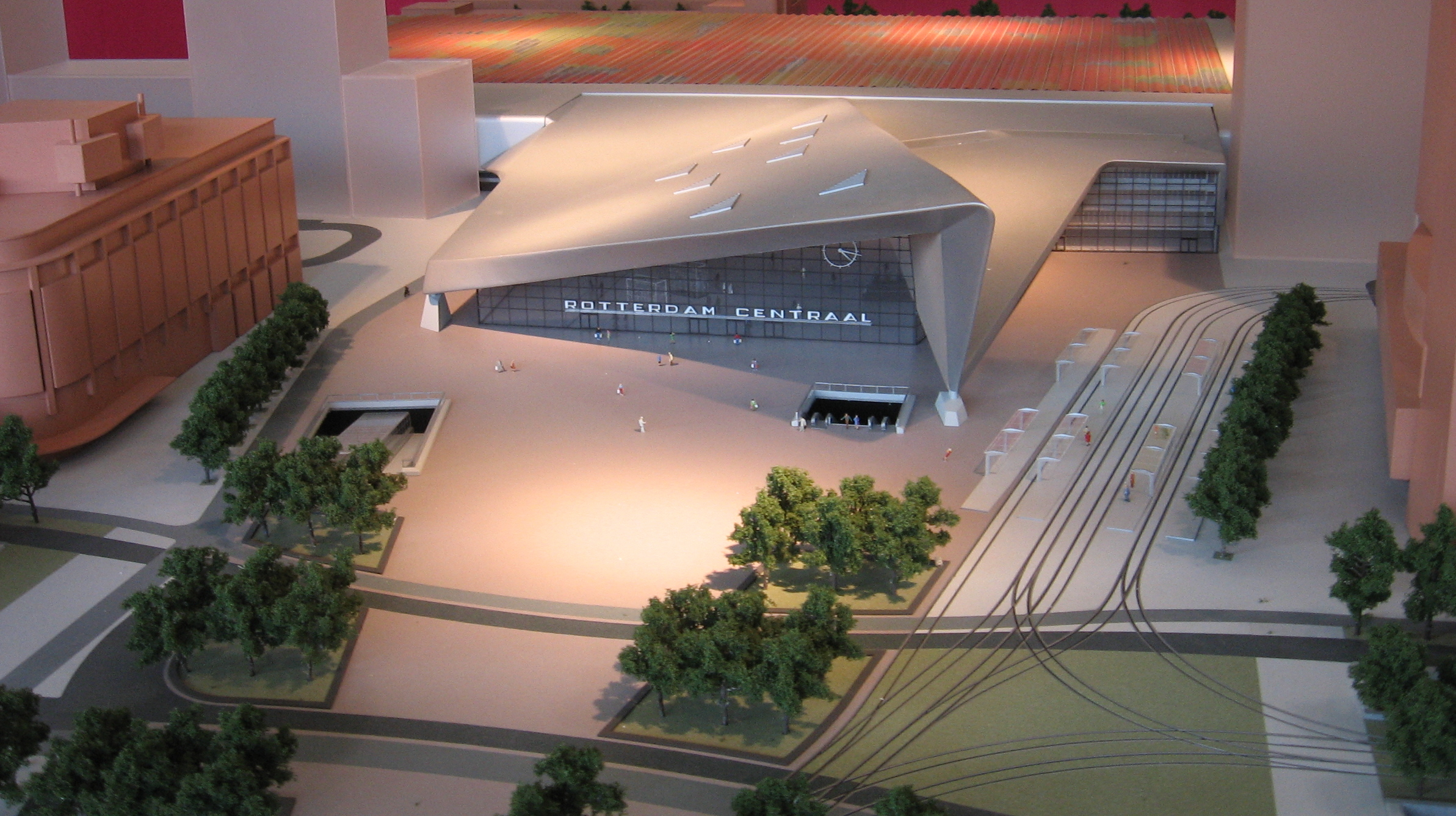 Rotterdam Central Station, The Netherlands, model construction